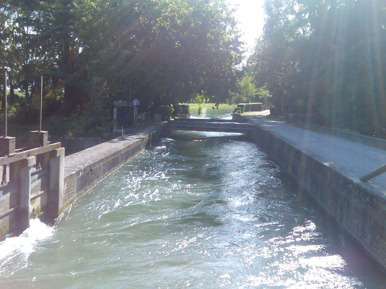 The end of Canale Pietro Vacchelli at the Tombe Morte hydrographical node, 30 km NW of Cremona, Lombardy.